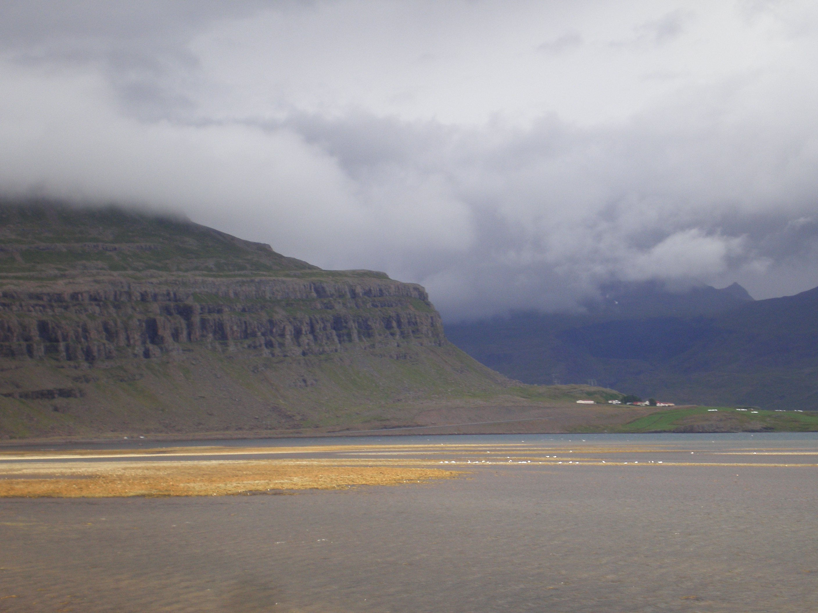 Eastern fjords - Iceland